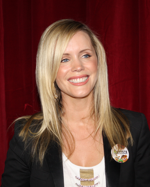 The Muppets’ Australian Premiere To Be Hosted By Jason Segel and Kermit The Frog